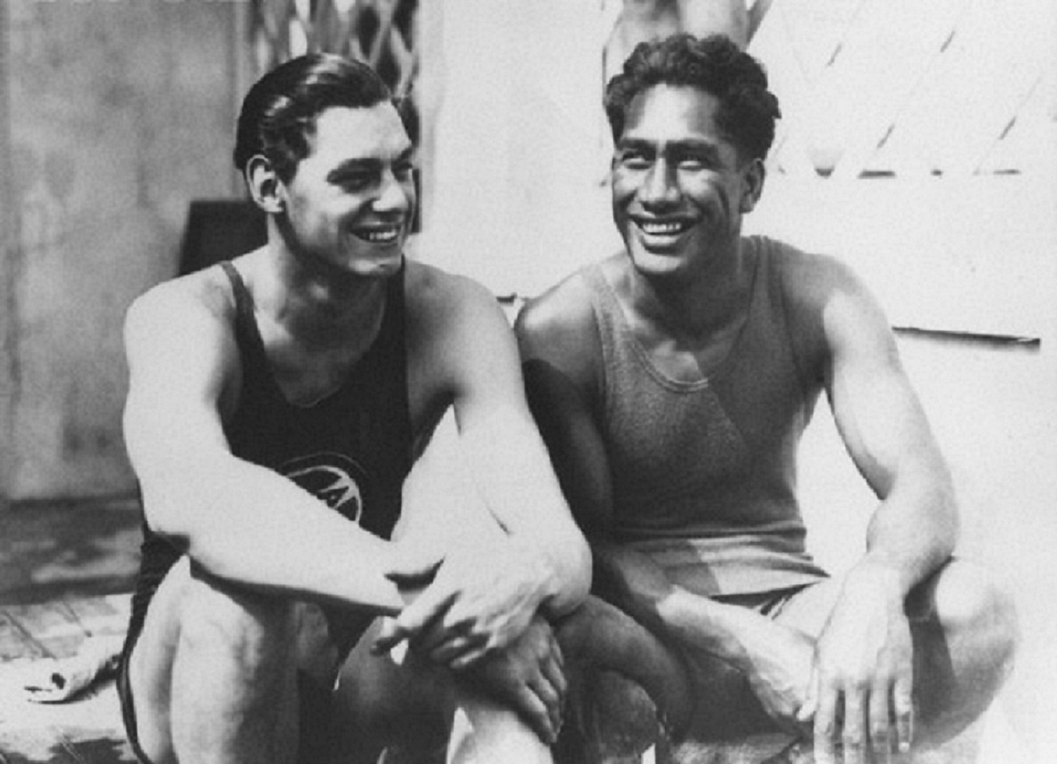 Johnny Weissmuller, American Olympic swimmer, 1904-1984, with Duke Kahanamoku, at the 1924 Paris Olympics.